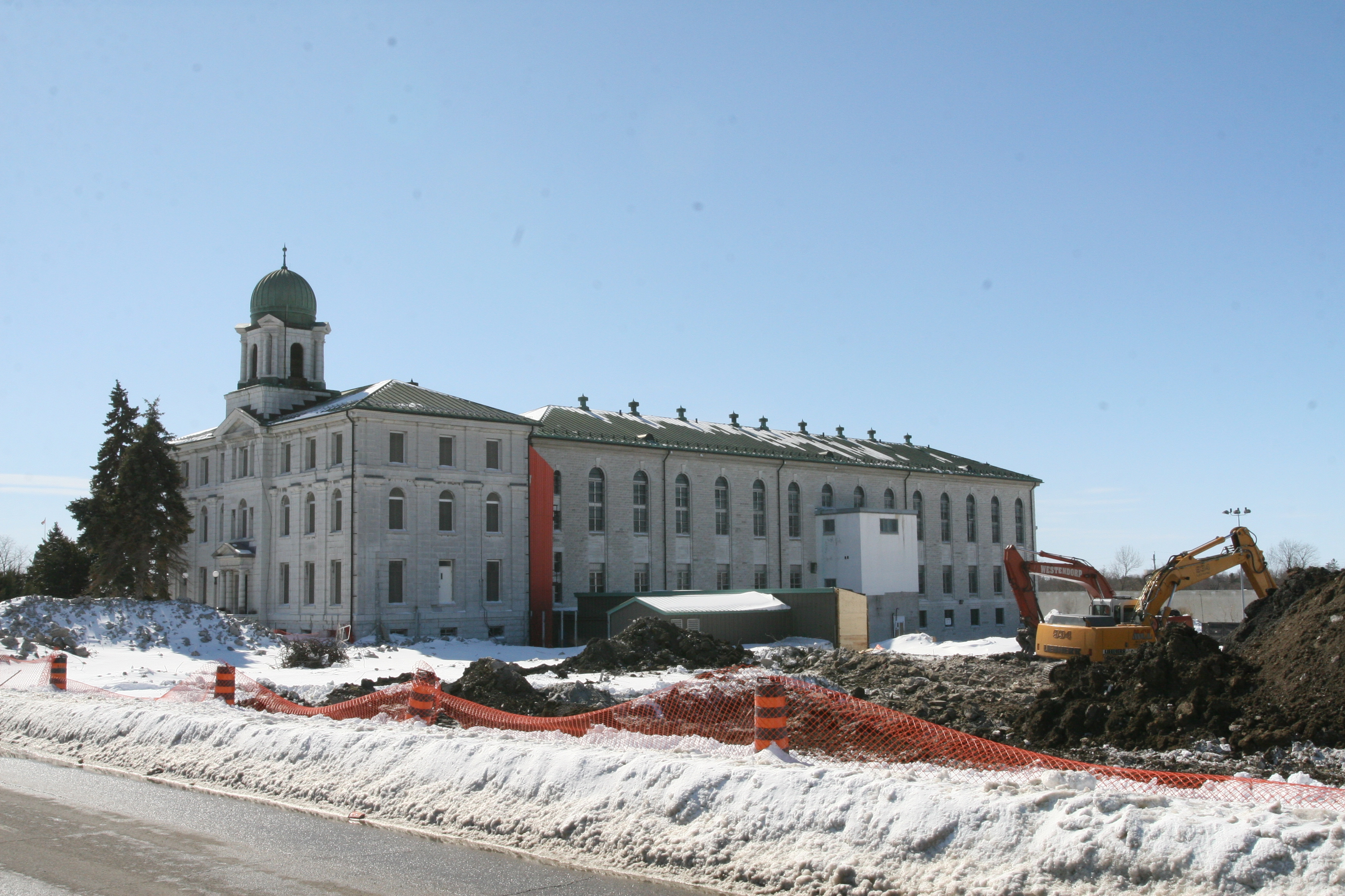 Demolition of the wall of the former Prison for Women, Kingston, Ontario, Canada. Opened in 1934, the prison was closed in 2000. The building has been purchased by Queen's University.